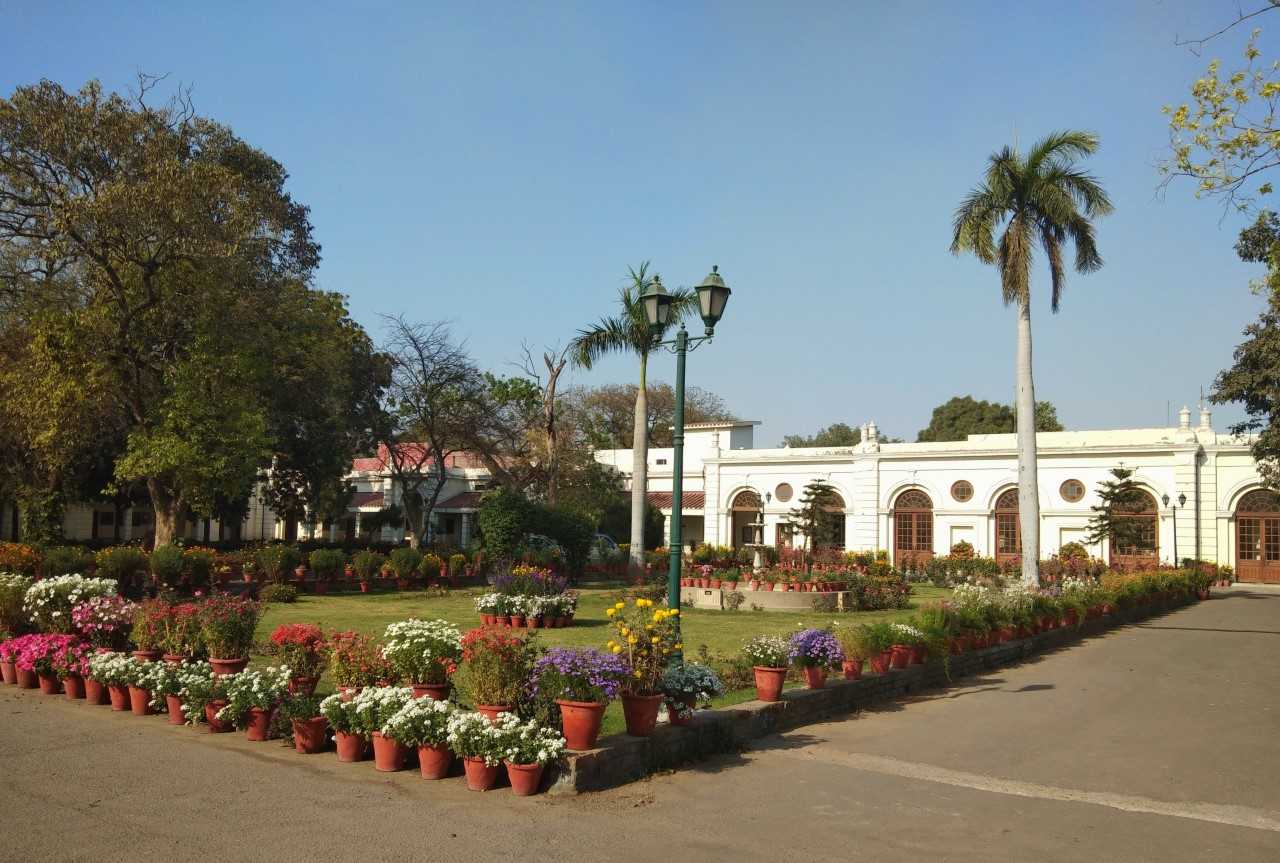 The college's main building served as the residence of the Commander-in-Chief of the British-Indian army.